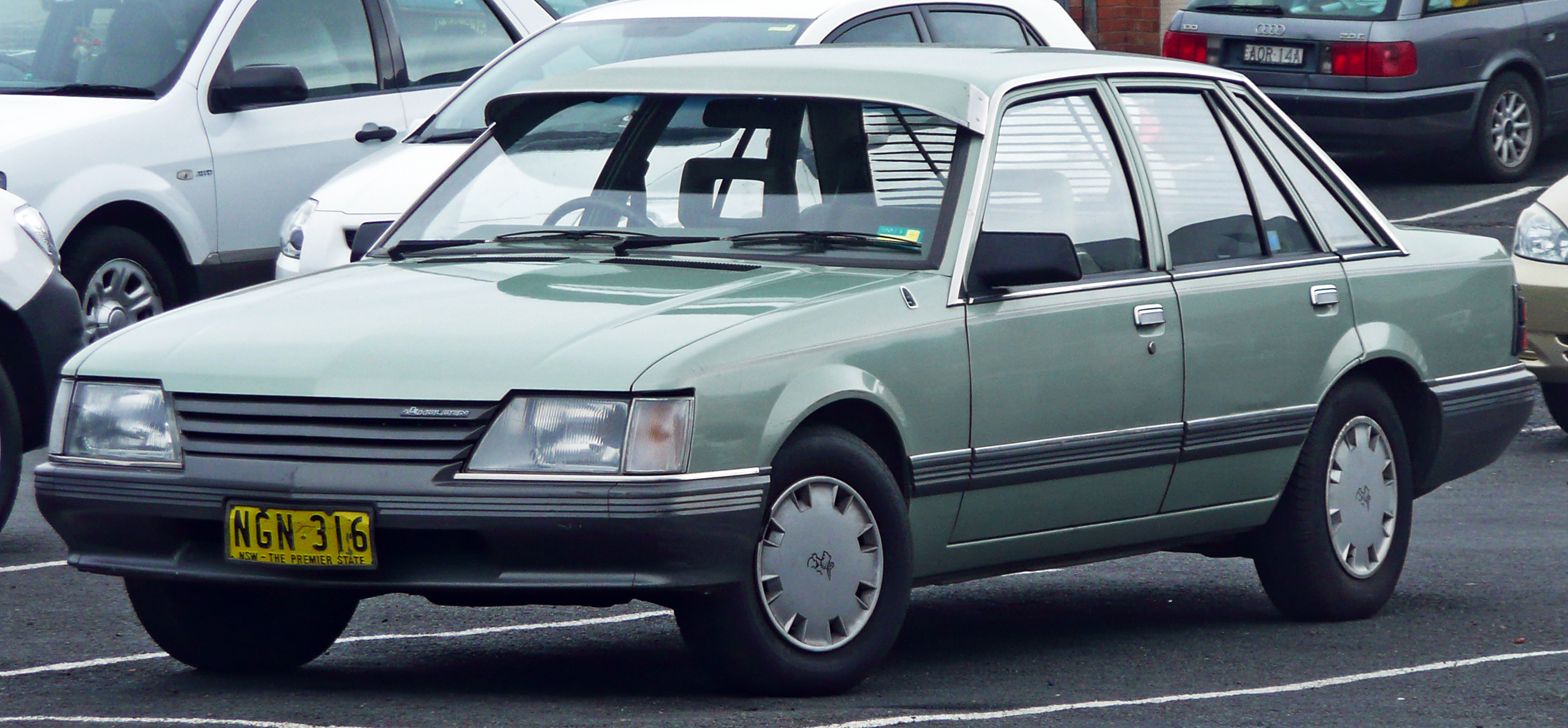 1984 Holden VK Commodore SL sedan. Photographed in Caringbah, New South Wales, Australia.